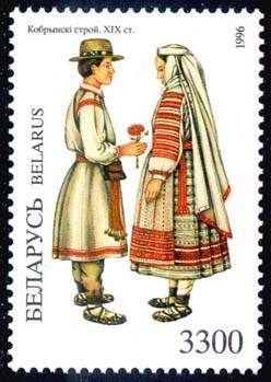 Kobrynski Stroj stamp